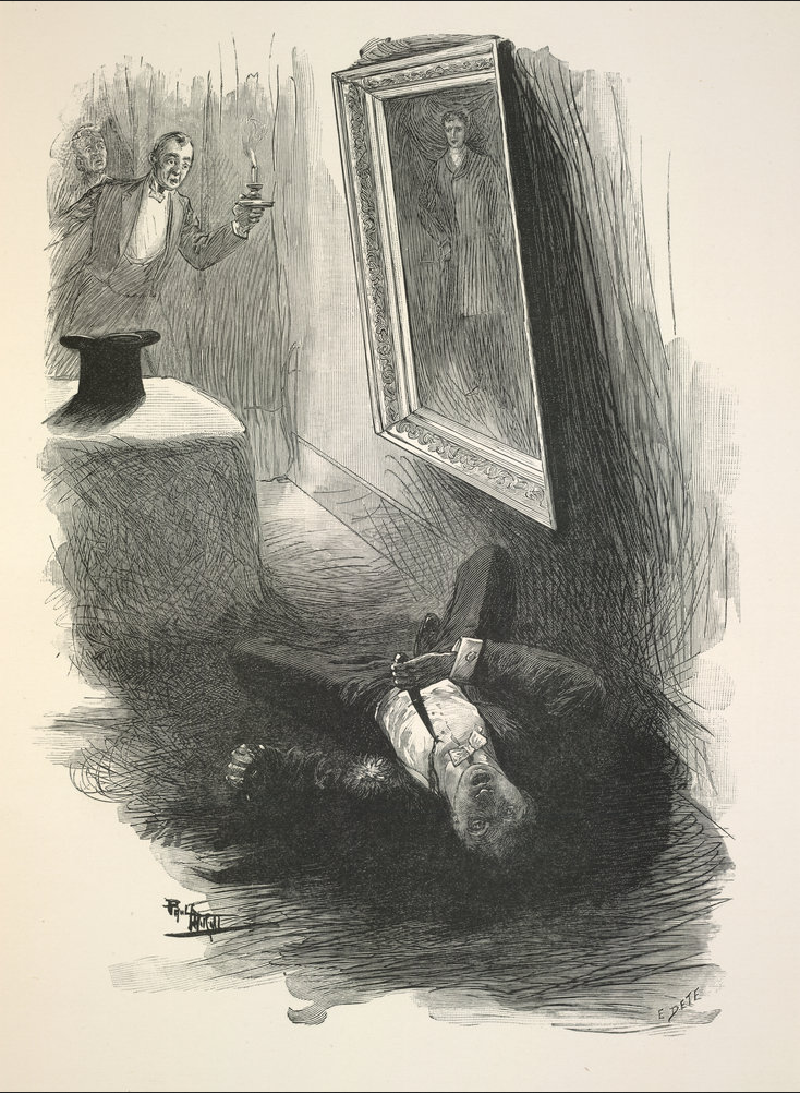 One of the 7 engravings by Eugène Dété after Paul Thiriat, from The Picture of Dorian Gray, published in Paris by Charles Carrington.